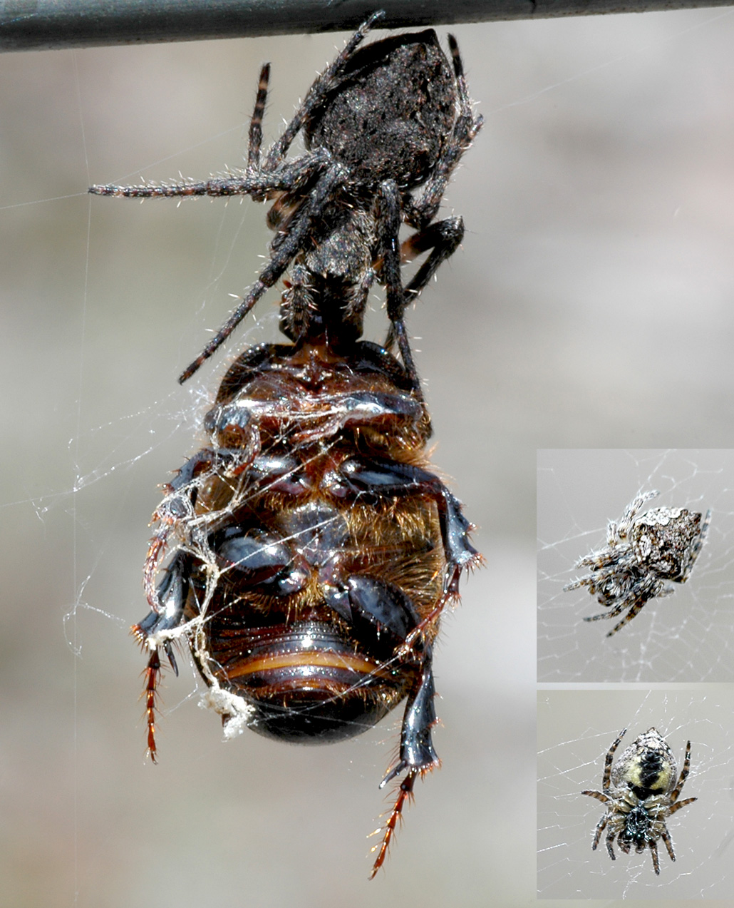 Garden orbweb spider Eriophora pustulosa. Female (darkly camouflaged) eating a beetle. Dorsal and ventral view of the male (insets) resting in the center of her web.